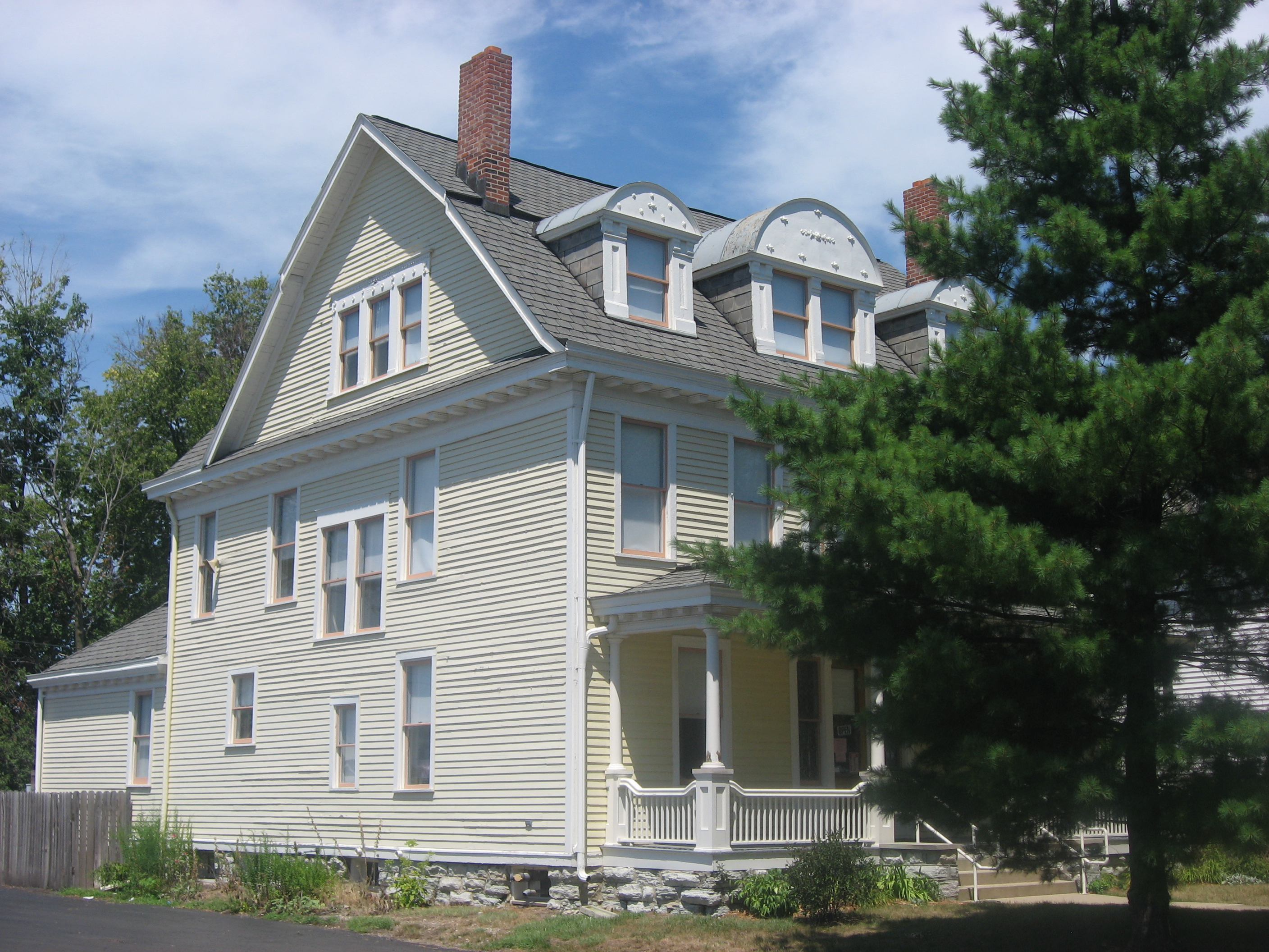 Front and southern side of the Marie Webster House (the Quilters Hall of Fame), located at 926 S. Washington Street in Marion, Indiana, United States. Built in 1905, it has been declared a National Historic Landmark.